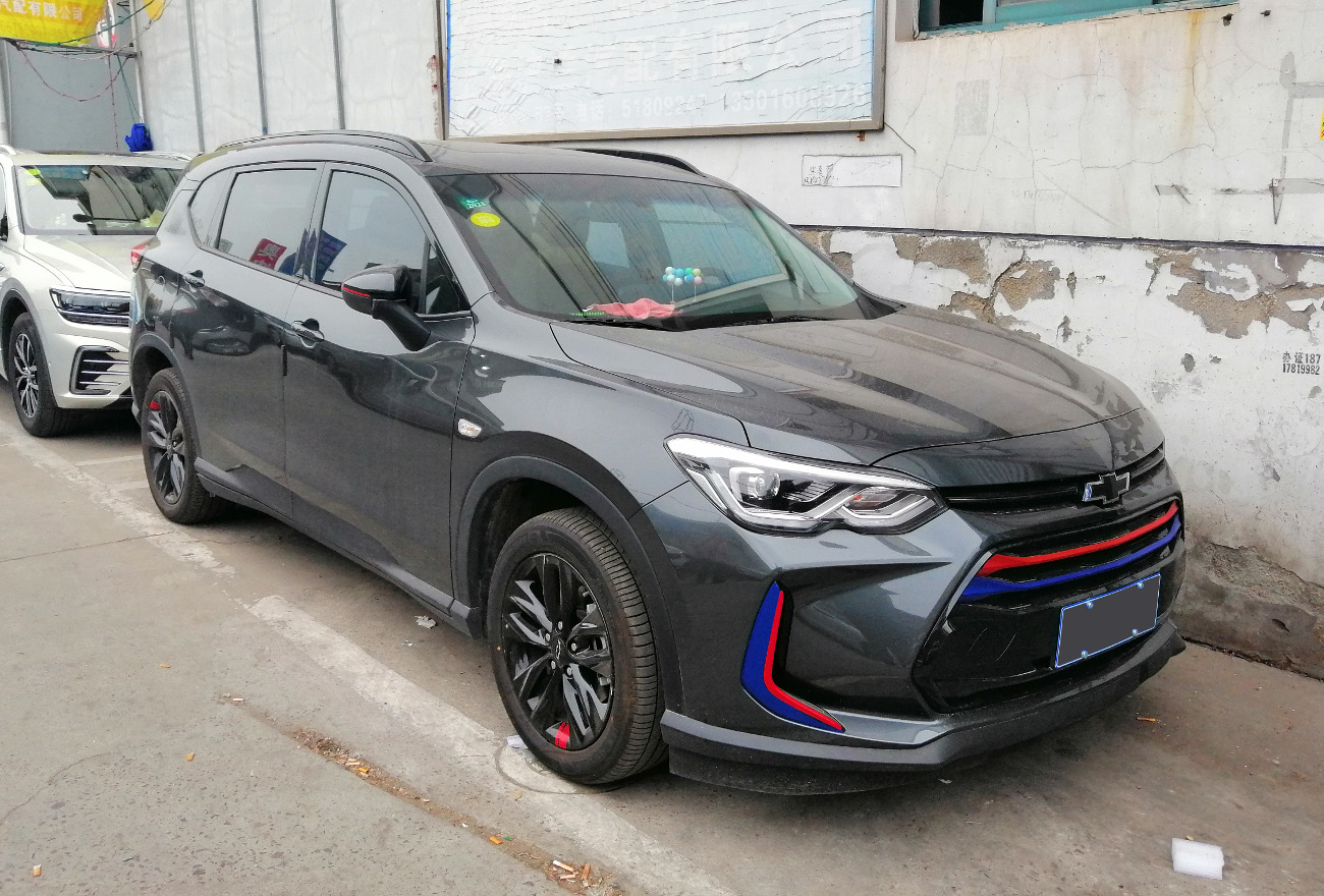 Chevrolet Orlando CN Red Line photographed in Shanghai, China.